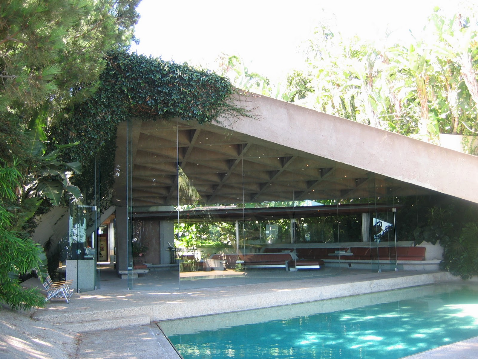 Goldstein House by modernist architect John Lautner, in Beverly Hills, California. Image taken from rear terrace edge looking towards living room.